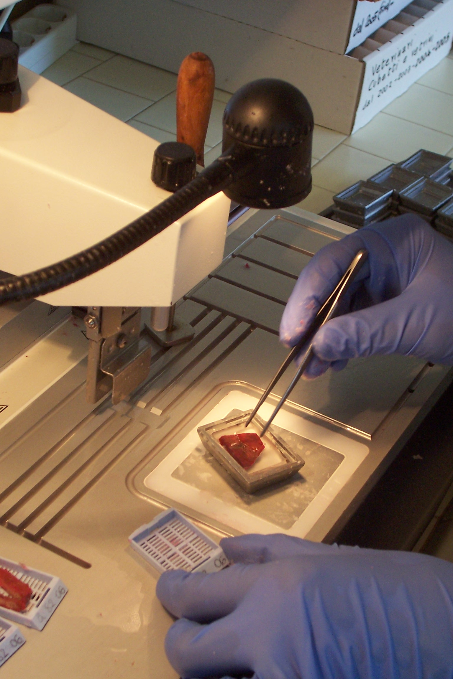 Lab. of Pathology - Monfalcone Hospital (Italy). How histological slides are prepared in practice. Inclusion station. The tissue fragment is prepared for inclusion.